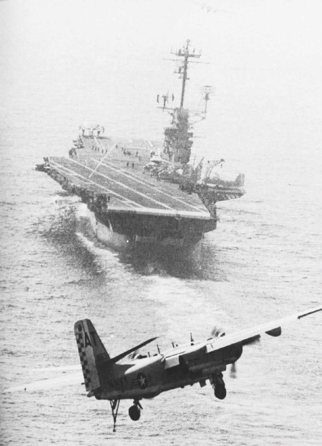 A U.S. Navy Grumman S-2E Tracker of Anti-Submarine Squadron 32 (VS-32) "Checkmates" approaching the aircraft carrier USS Essex (CVS-9) in 1967. VS-32 was assigned to Carrier Anti-Submarine Air Group 54 (CVSG-54) aboard the Essex for a deployment to the Mediterranean Sea from June to August 1967.